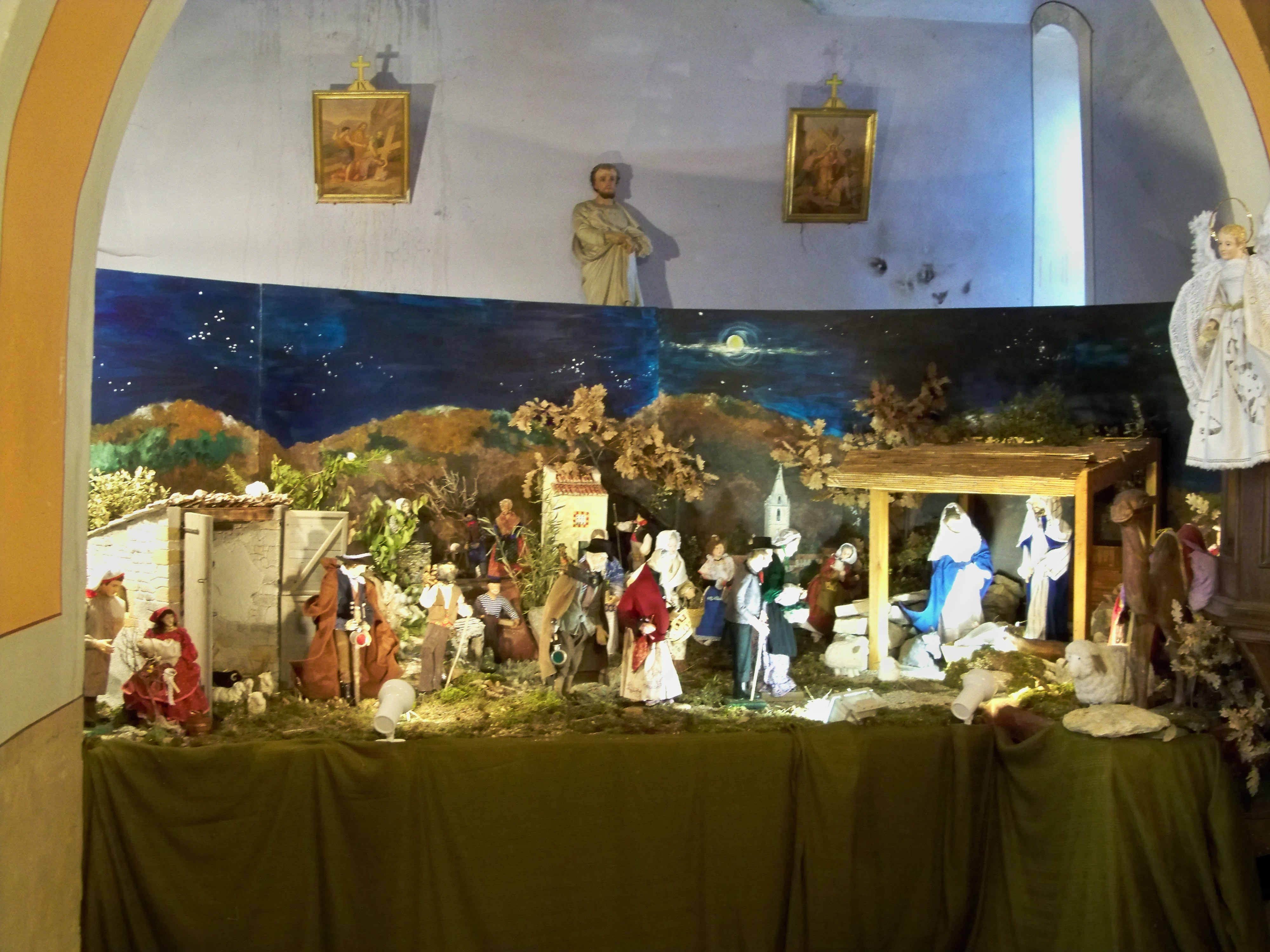 Native scene in Saumane's church (Alpes de Haute Provence, France)